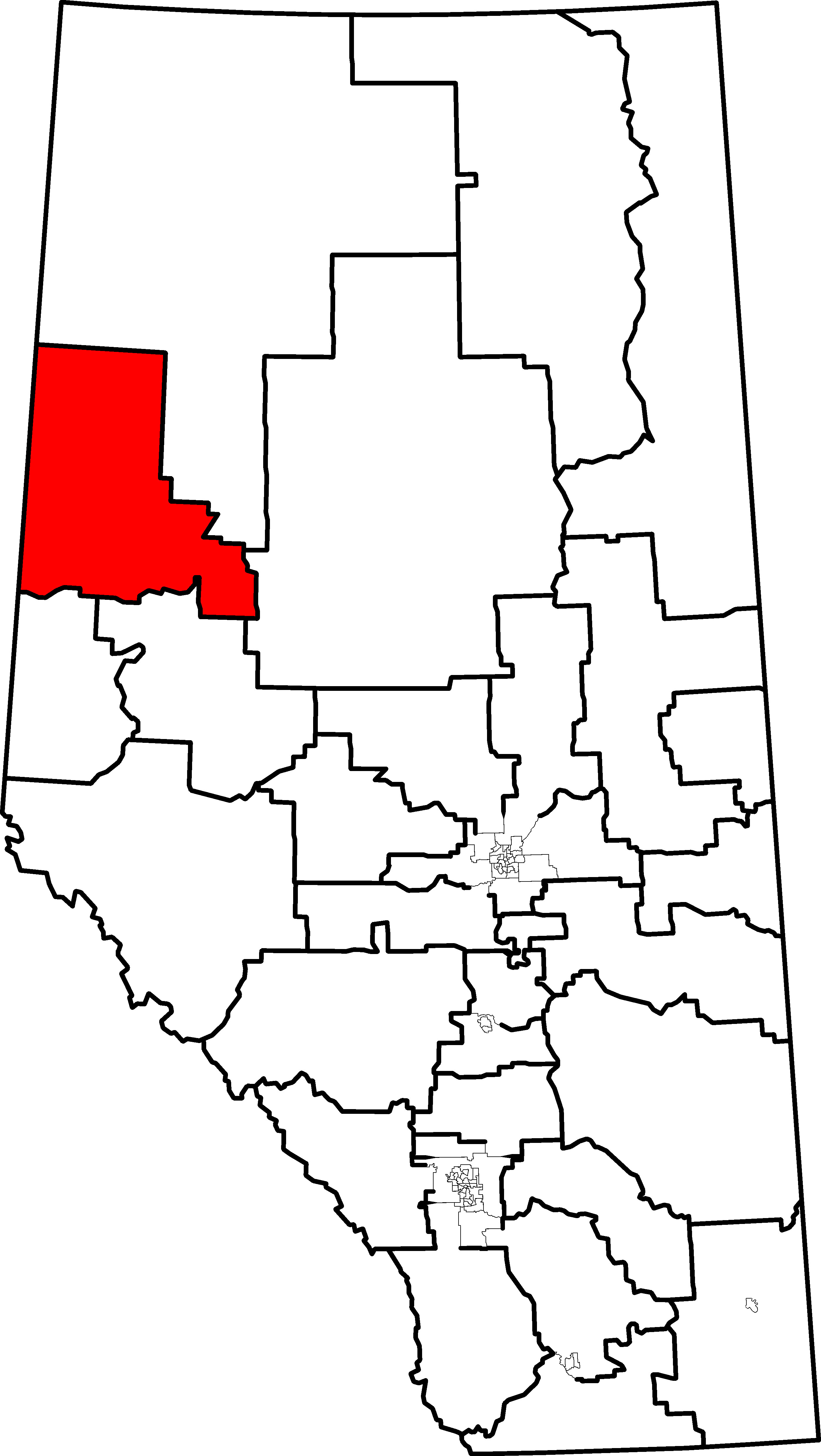 A map of the Alberta provincial electoral districts, effective 2010. Dunvegan-Central Peace-Notley is highlighted in red.